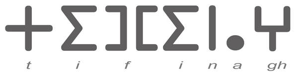 the word "tifinagh" in modern tifinagh alphabet